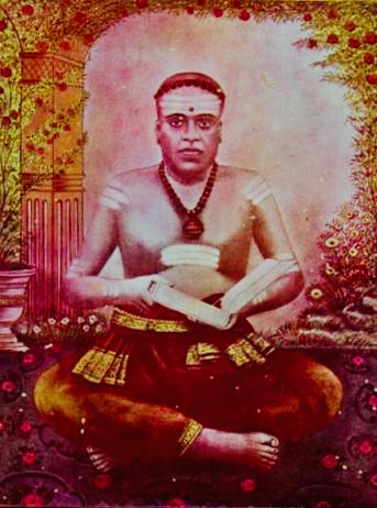 Āṟumuka Nāvalar (1822 – 1879) a Sri Lankan Tamil Shaivite scholar